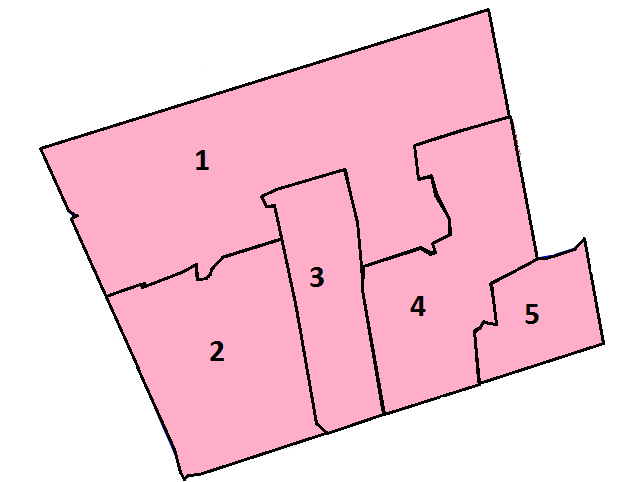 Map of Vaughan, Ontario's municipal wards used since 2010.